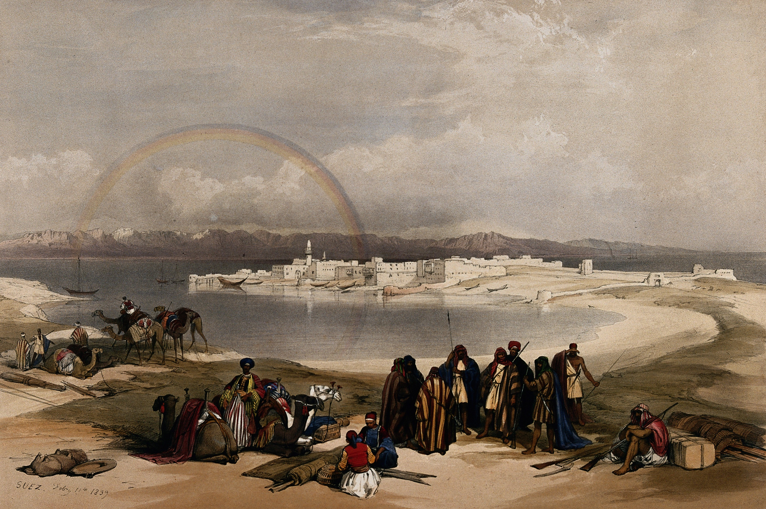 Suez, with figures, camels and a rainbow. Coloured lithograph by Louis Haghe after David Roberts, 1849. Iconographic Collections Keywords: David Roberts; Louis Haghe